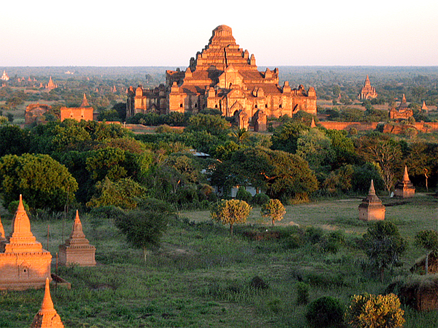 A panorama of Bagan